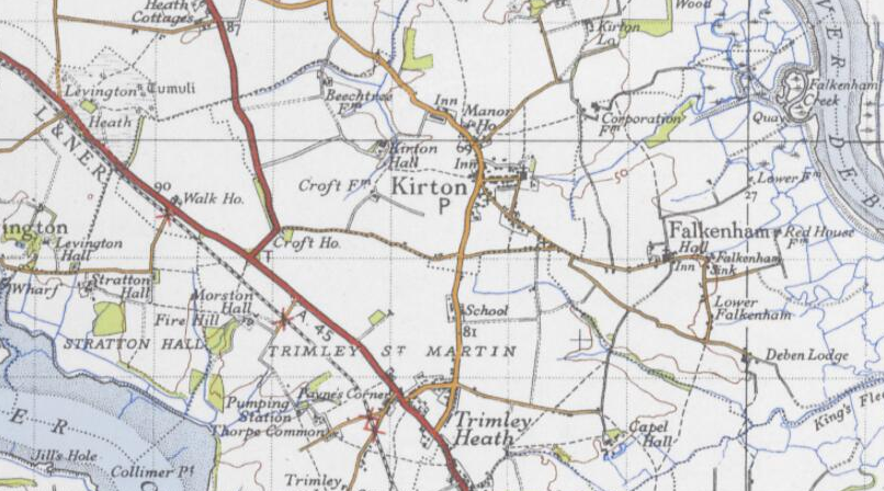 A Map of Kirton, Suffolk as shown by a 1945 new popular edition of the Ordnance Survey of Great Britain